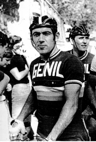 Antonio Garcia Garcia